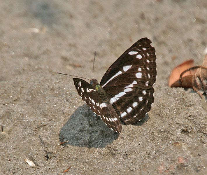 Sullied Sailor Neptis soma at Jayanti in Buxa Tiger Reserve in Jalpaiguri district of West Bengal, India.